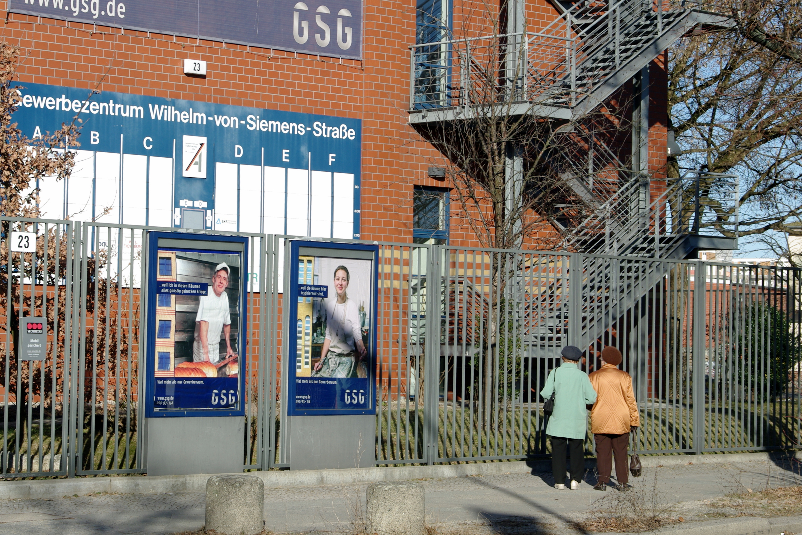 Two women reading a poster of the industrial park "Werner-von-Siemens-Straße" in the Werner-von-Siemens-Straße street in Berlin-Mariendorf.